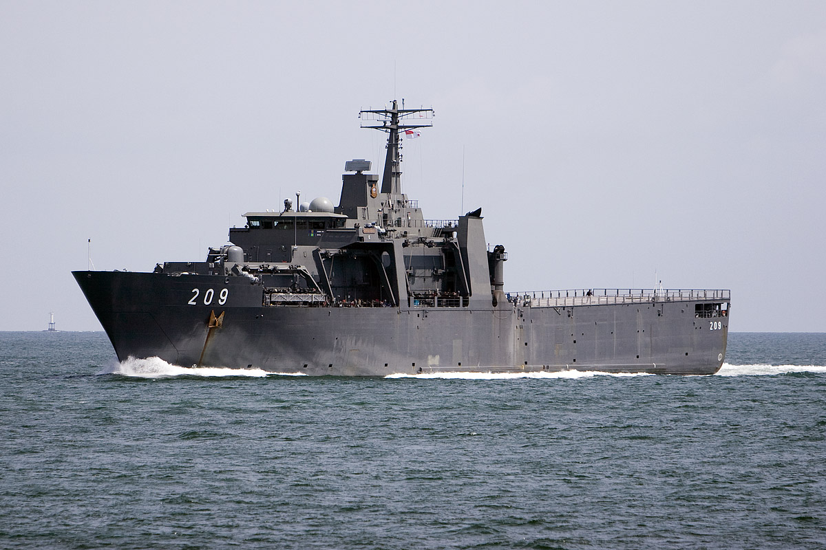 RSS Persistence (209) in the Singapore Straits